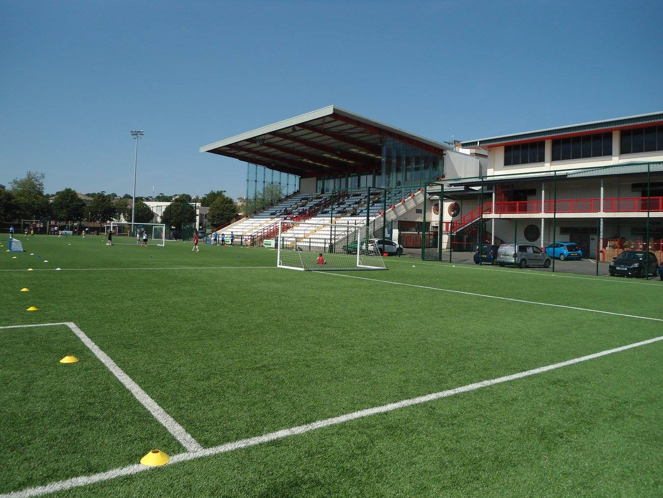 The main stand of the Springfield Stadium, Jersey